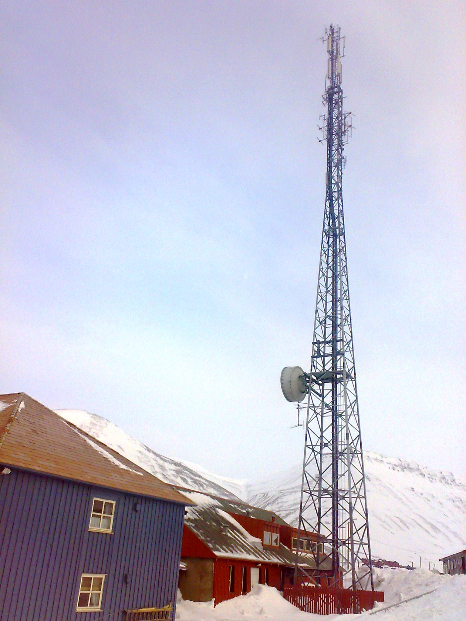 Telenor Svalbard office, Longyearbyen